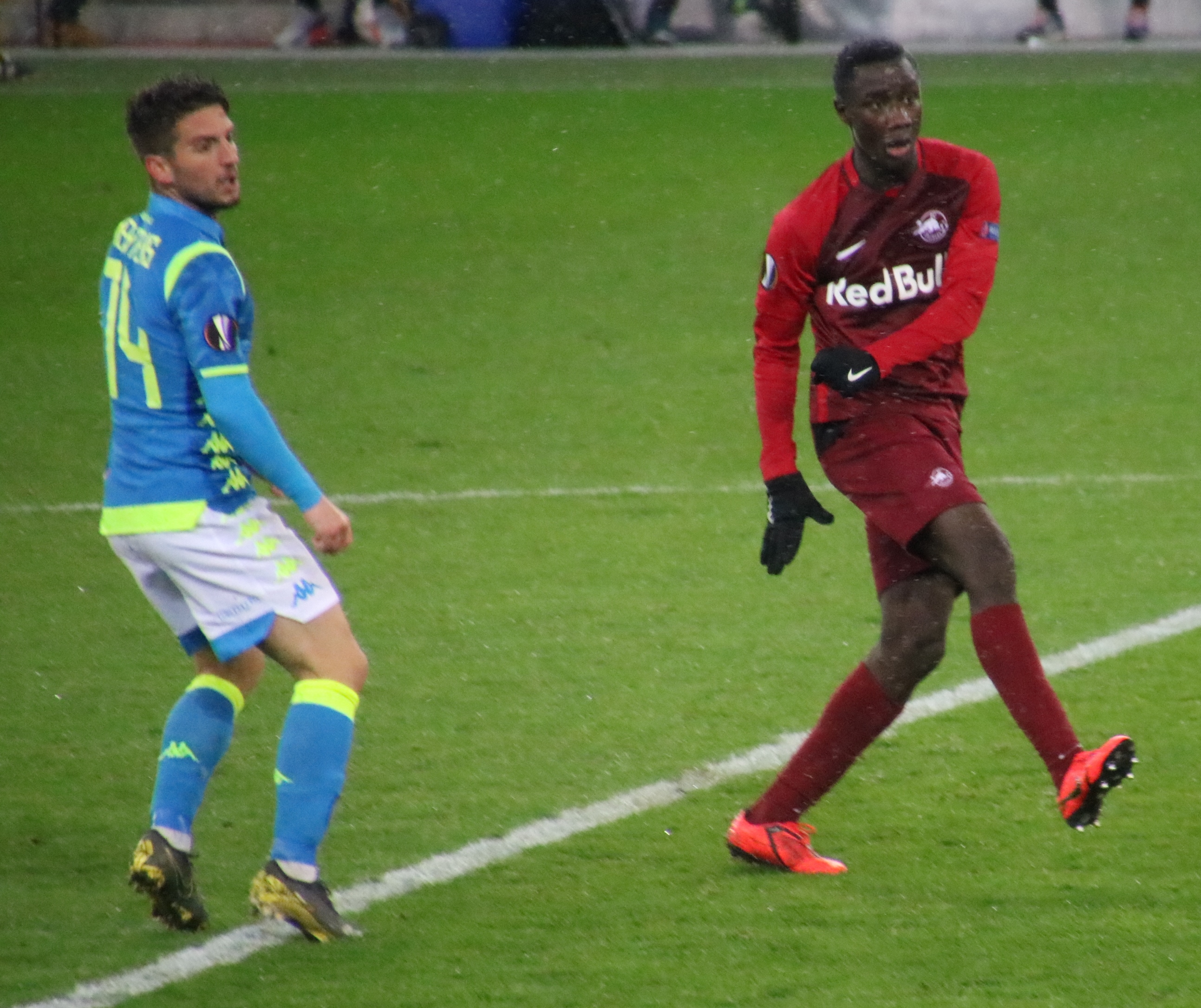 Euro League match round of 16 2nd leg